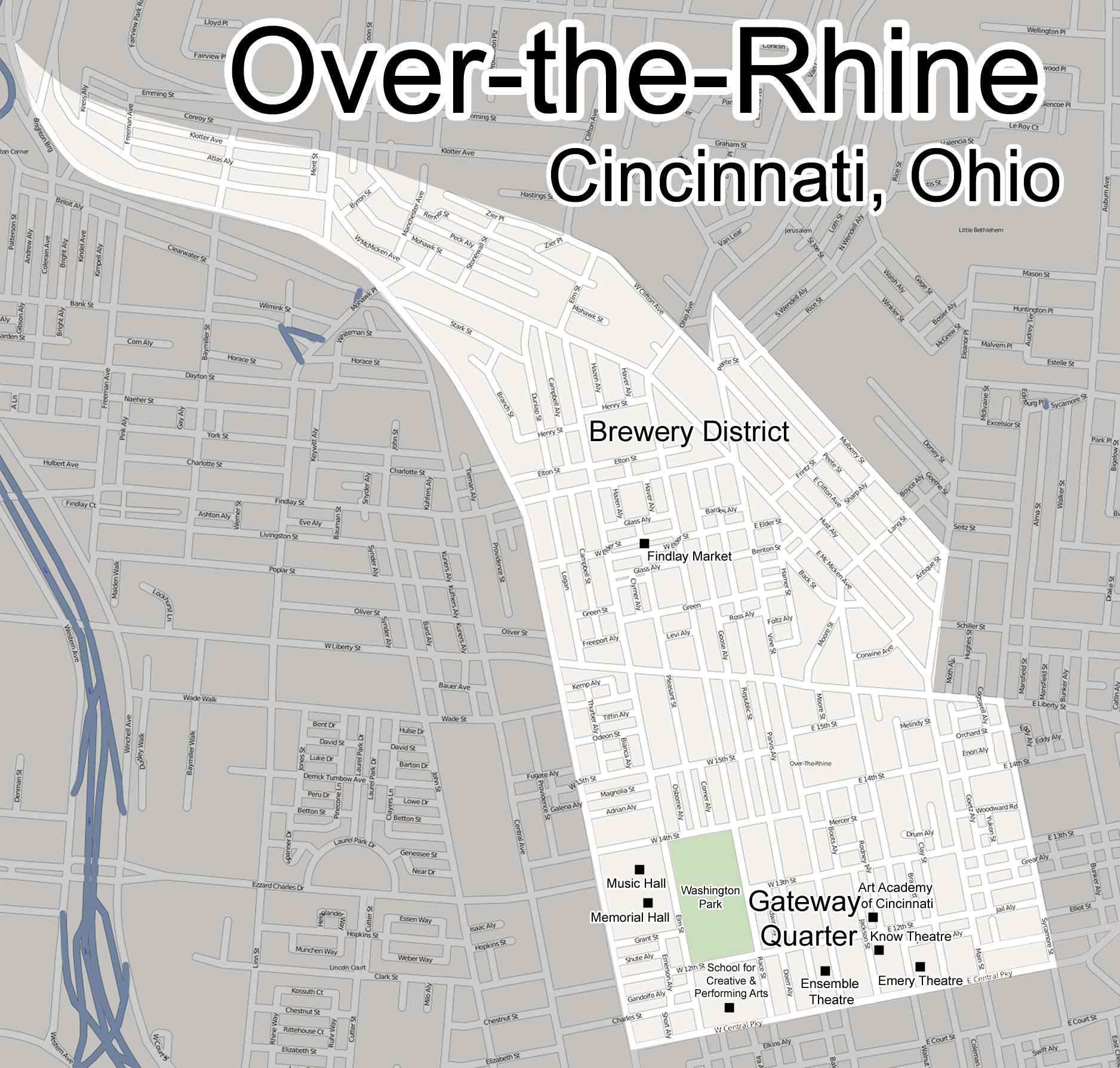 This map of Over-the-Rhine, a neighborhood in Cincinnati, Ohio, was created from OpenStreetMap project data, collected by the community. This map may be incomplete, and may contain errors. Don't rely solely on it for navigation.